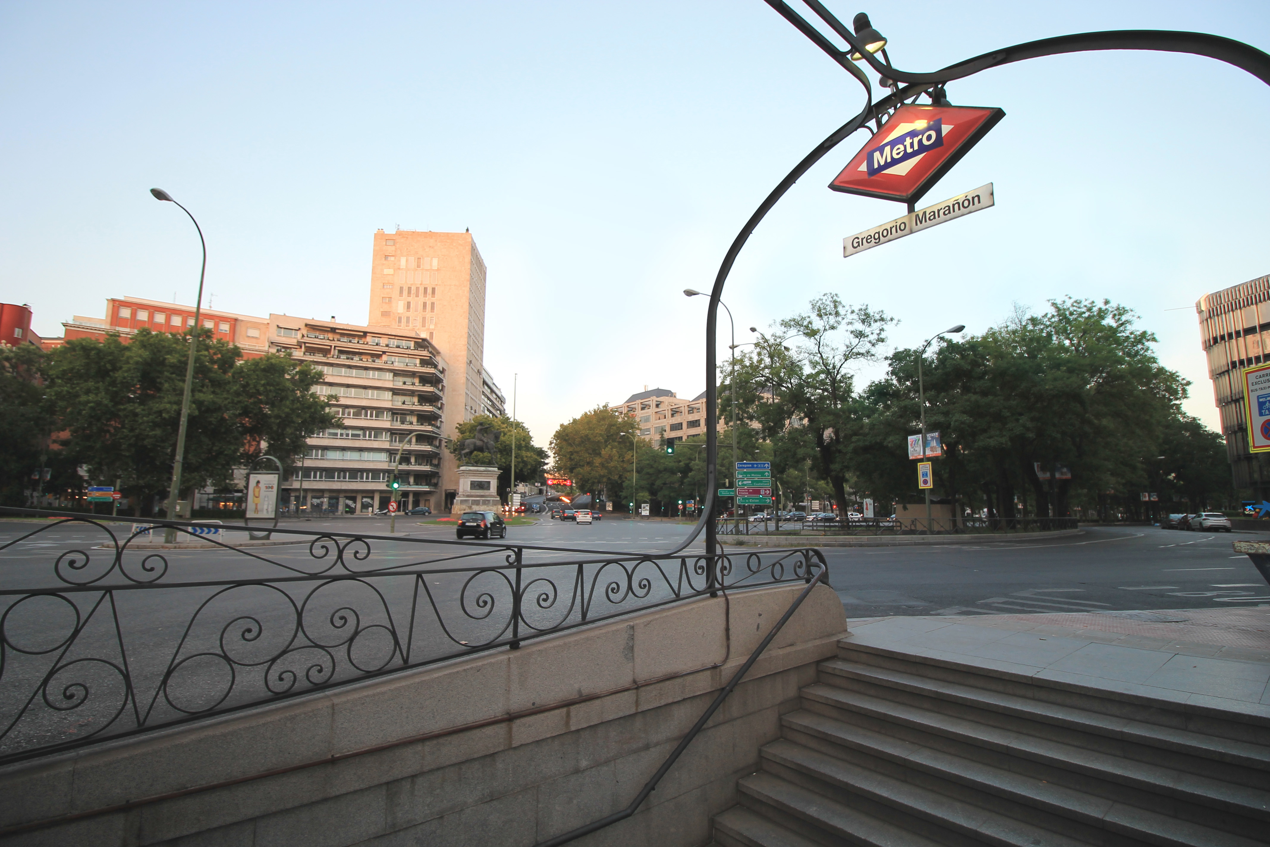 Entrance of Gregorio Marañón metro station in Madrid (Spain).